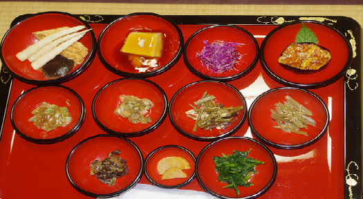 Vegan Japanese food